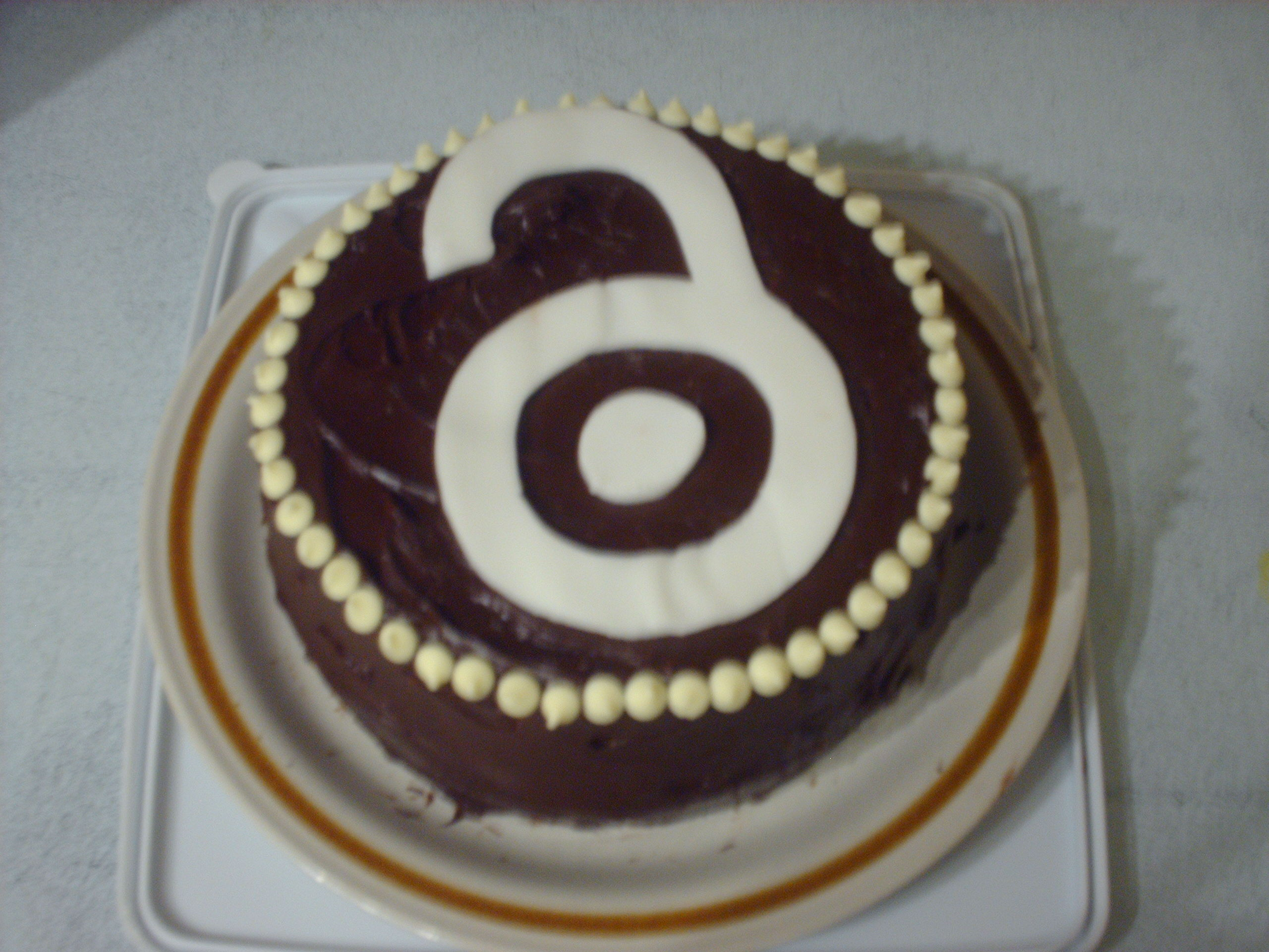 Cake baked to commemorate Open Access Week 2010 / the passing of the 2,000-deposit mark on the University of Lincoln's Institutional Repository. Horncastle, Lincolnshire, Sunday 17 October 2010